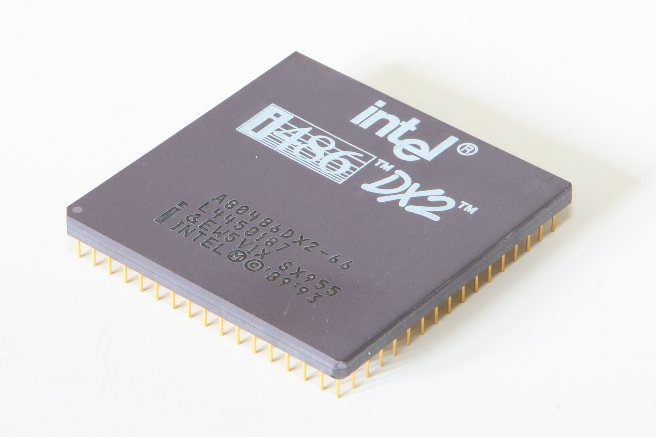 Intel i486 DX2 66Mhz Camera data Camera Canon EOS 30D Lens Canon EF 24-70 mm 2.8 L USM Focal length 70 mm Aperture f/19 Exposure time 15 s Sensivity ISO 100 Image Editing Programs Canon Digital Photo Professional